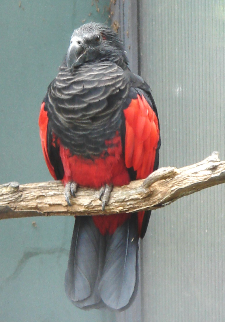 Psittrichas fulgidus at WILHELMA, Stuttgart, Germany